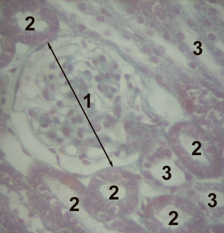 histology of the cortex of a kidney; 1—Glomerulus, 2—Wikipedia:Proximal convoluted tubule, 3—Wikipedia:Distal convoluted tubule